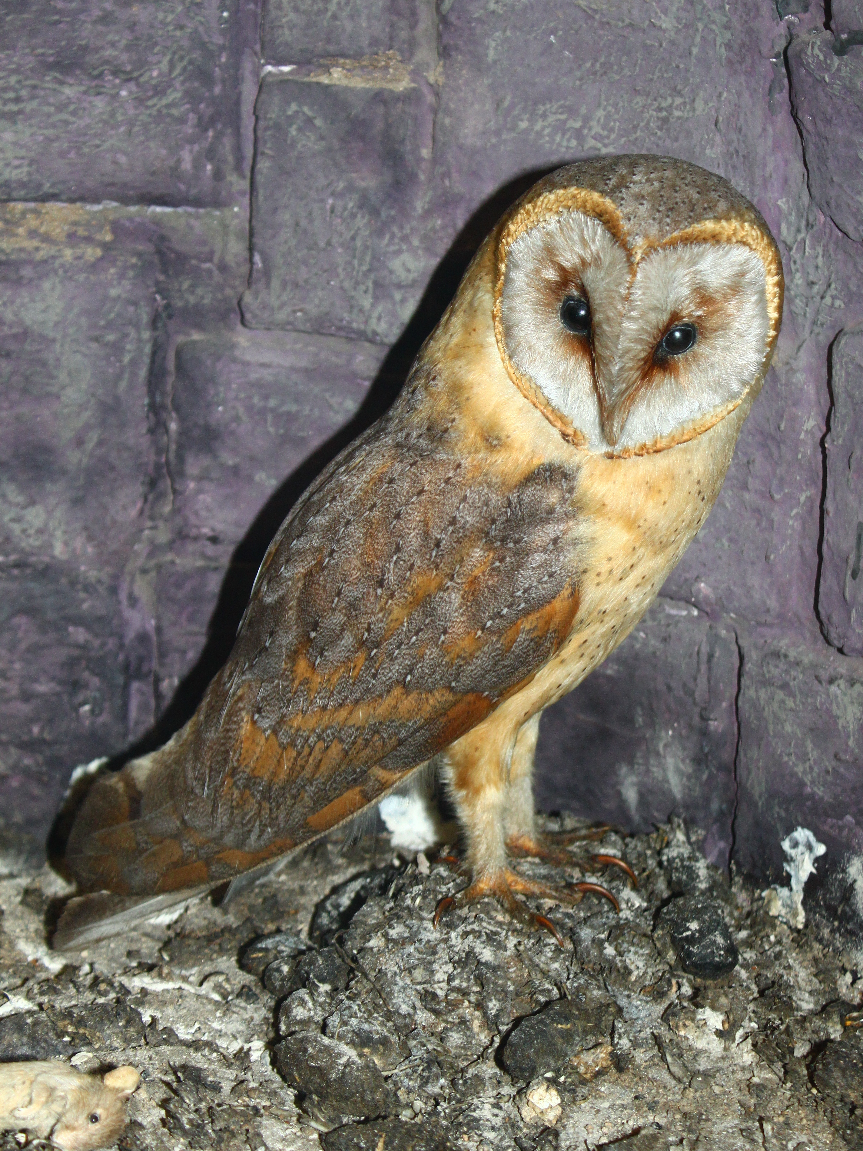 Tyto alba, Tytonidae, Barn Owl; Staatliches Museum für Naturkunde Karlsruhe, Germany.